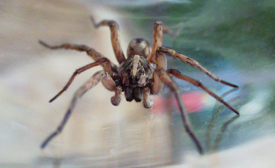 Picture of a member of the Lycosidae, Genus Hogna, species probably helluo.